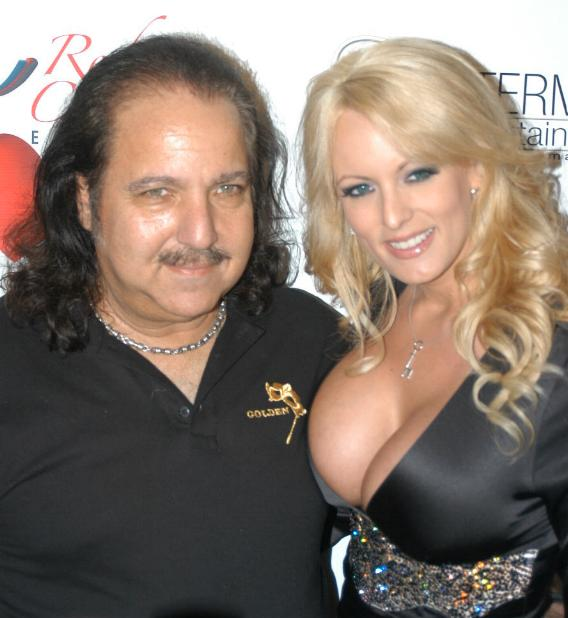 March 10, 2007: Ron Jeremy's Birthday Party A Mob Scene In Hollywood Saturday Night